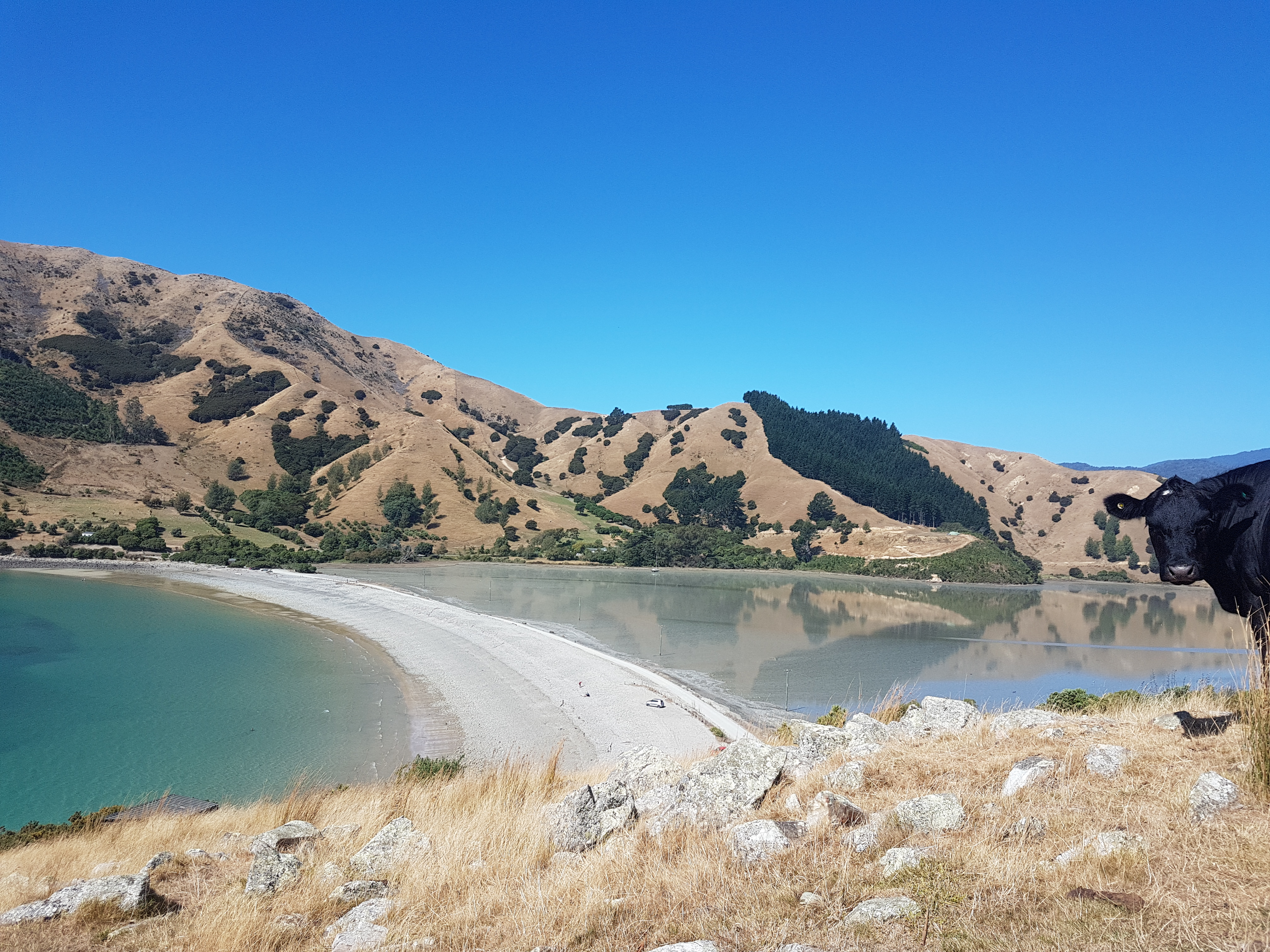 Photograph of cable bay beach, with the head of a cow on the right of the image.